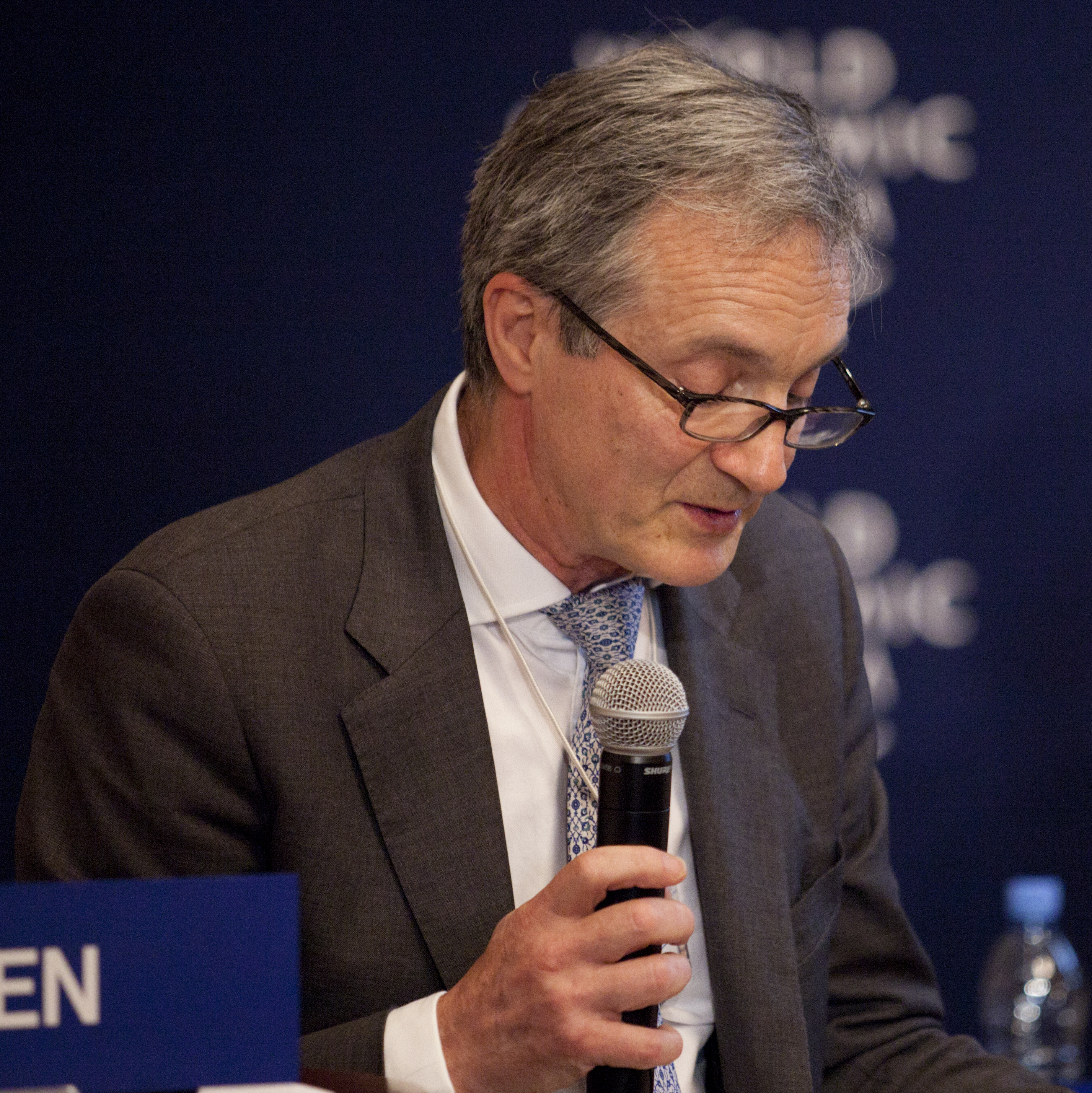 ADDIS ABABA/ETHIOPIA, 09-11 MAY 2012 - Richard Dowden, Director, Royal African Society United Kingdom captured during the Fostering Political Stability Session at the World Economic Forum on Africa held in Addis Ababa, Ethiopia, 9-11 May, 2012.